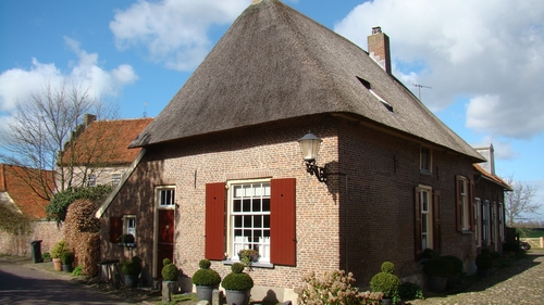 farmhouse, Bovenstraat/Uilenhoek, Bronkhorst (Nederland)